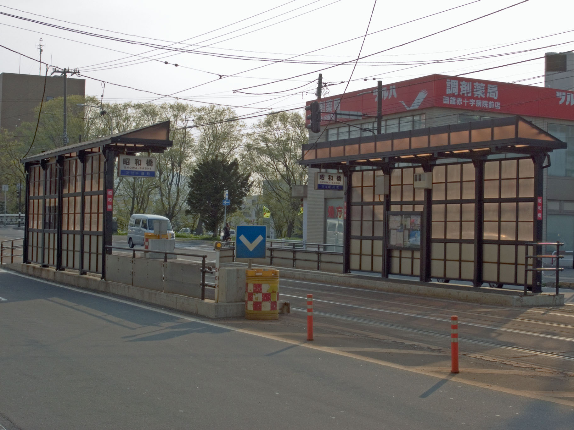 Showa-bashi station in Hakodate tram, Hokkaido, Japan